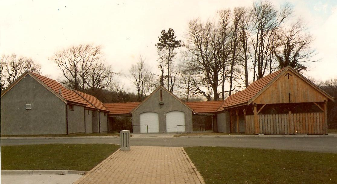 Bryngarw Country Park, Visitor centre pre opening 86